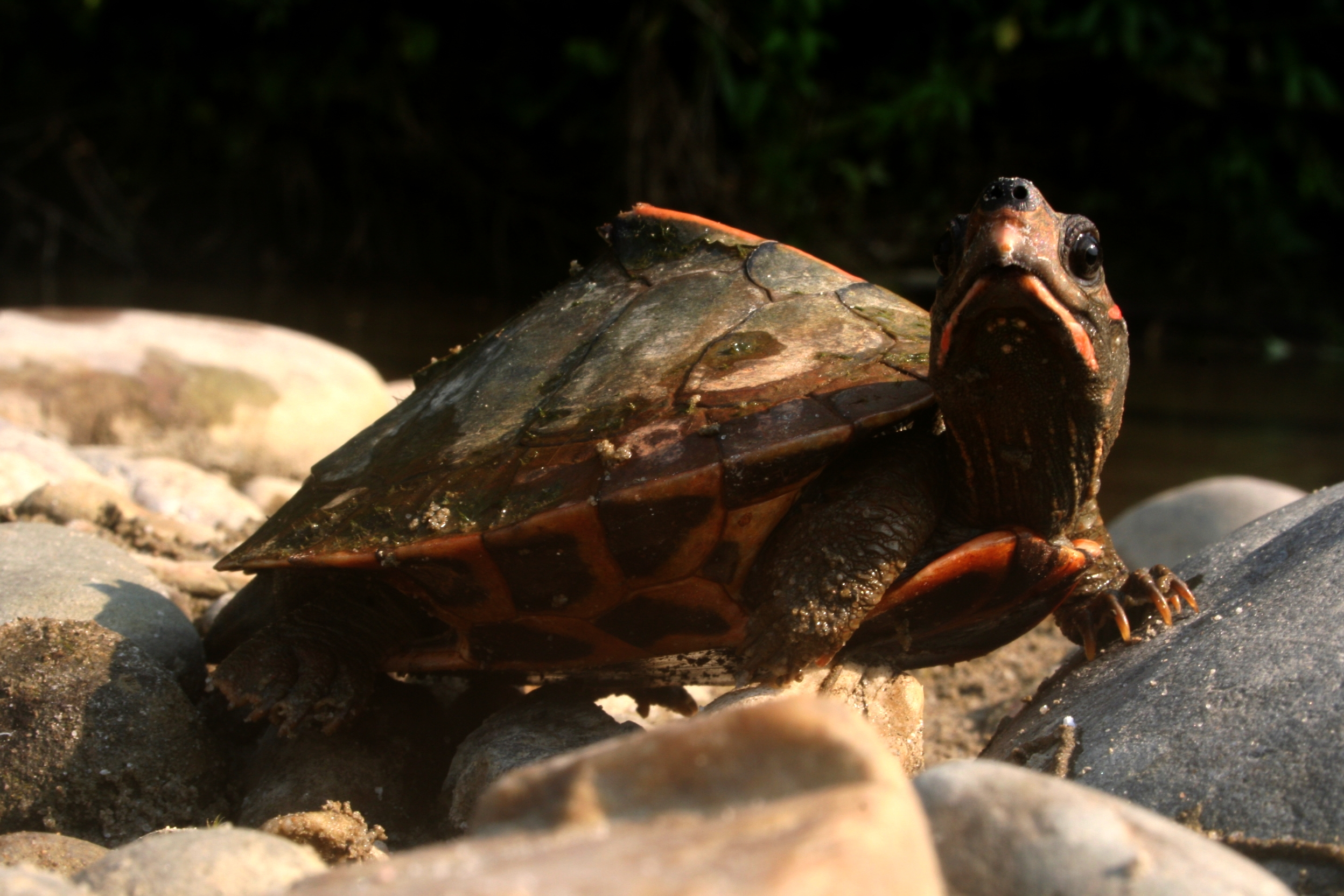 Photo of the Assam Roof Turtle Kachuga sylhetensis (Syn. Pangshura sylhetensis) taken at Pakke Tiger Reserve by Nandini Velho and released under the below mentioned license